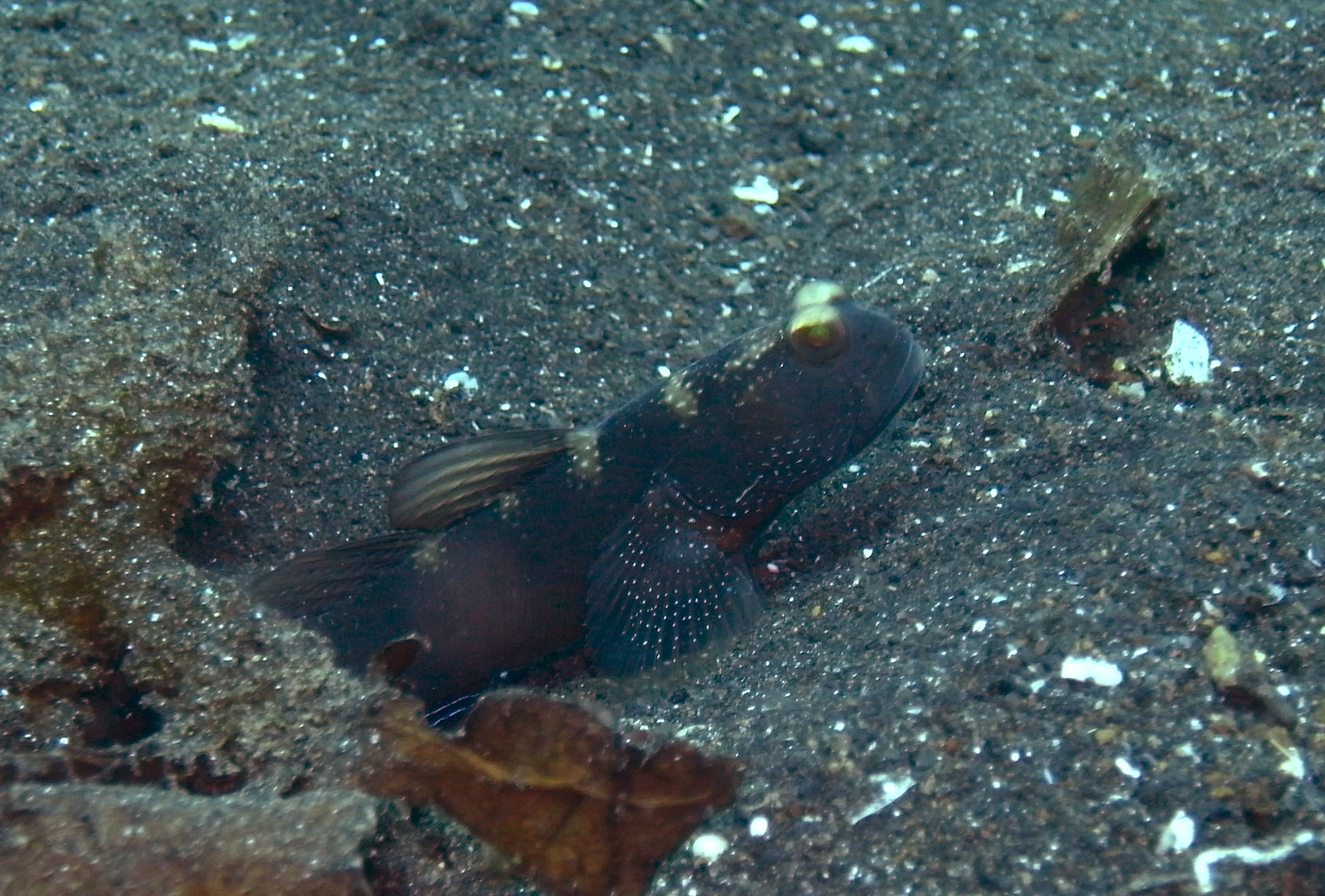 Black shrimp goby (Cryptocentrus fasciatus) emerging from a hole in the rocks.